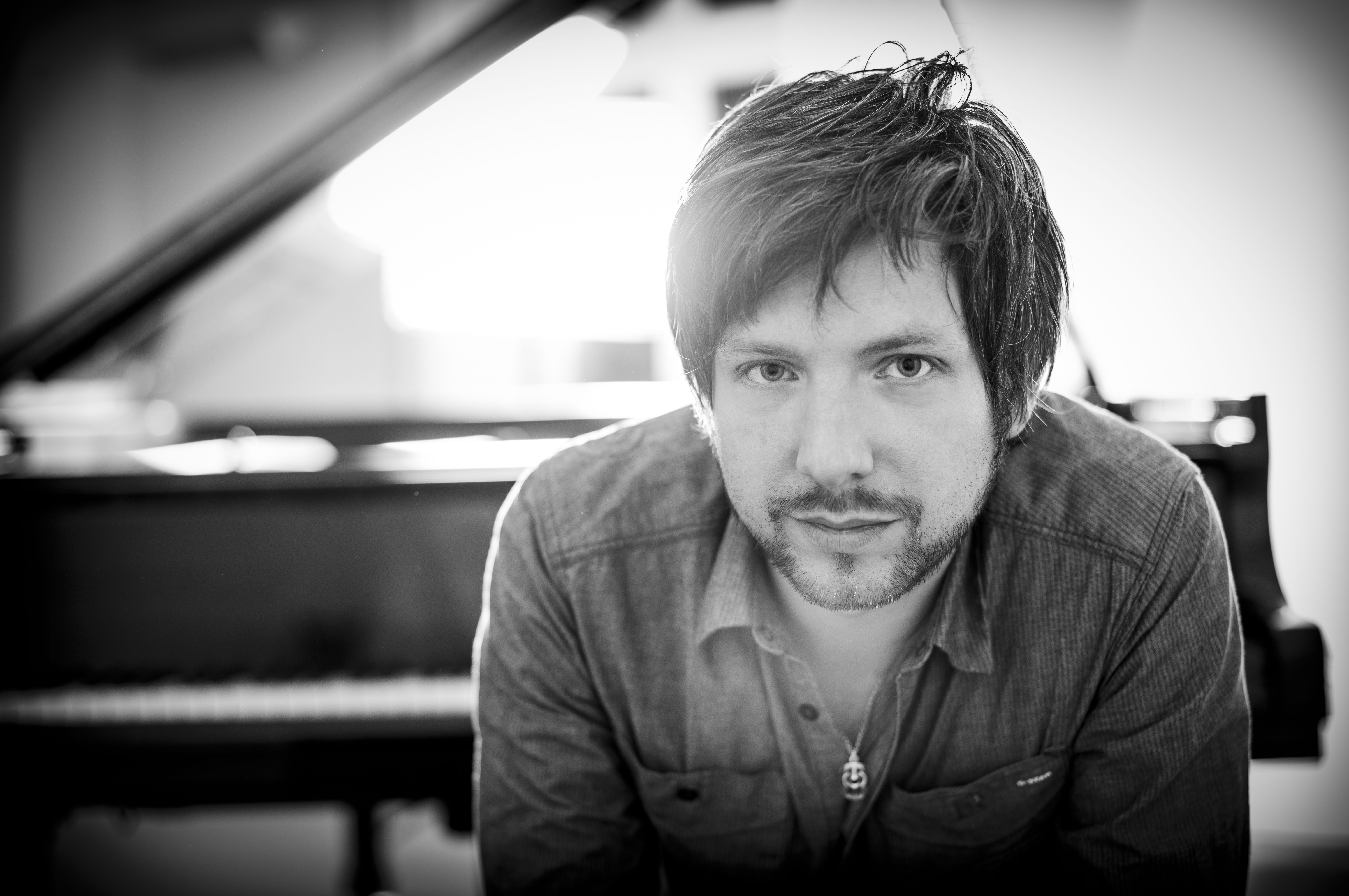 Jean Paul Brodbeck Pianist & Composer